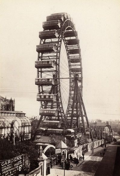 Big Wheel Blackpool